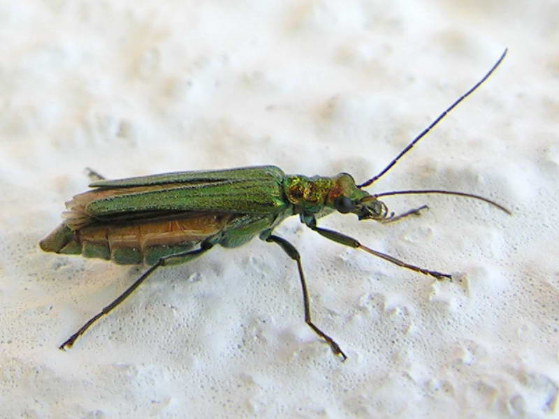 Oedemera nobilis (Scopoli 1763). Thanks to Siga for determination help.